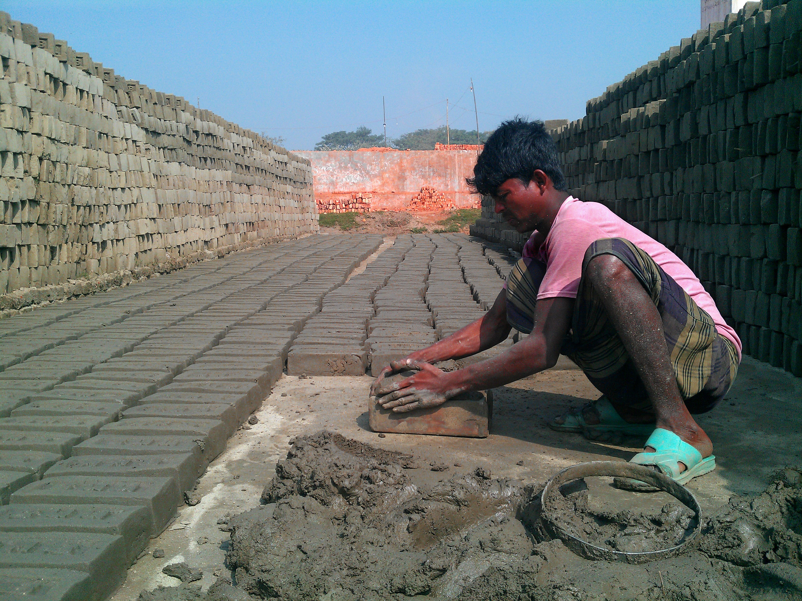 break field in Jazira,Dhaka